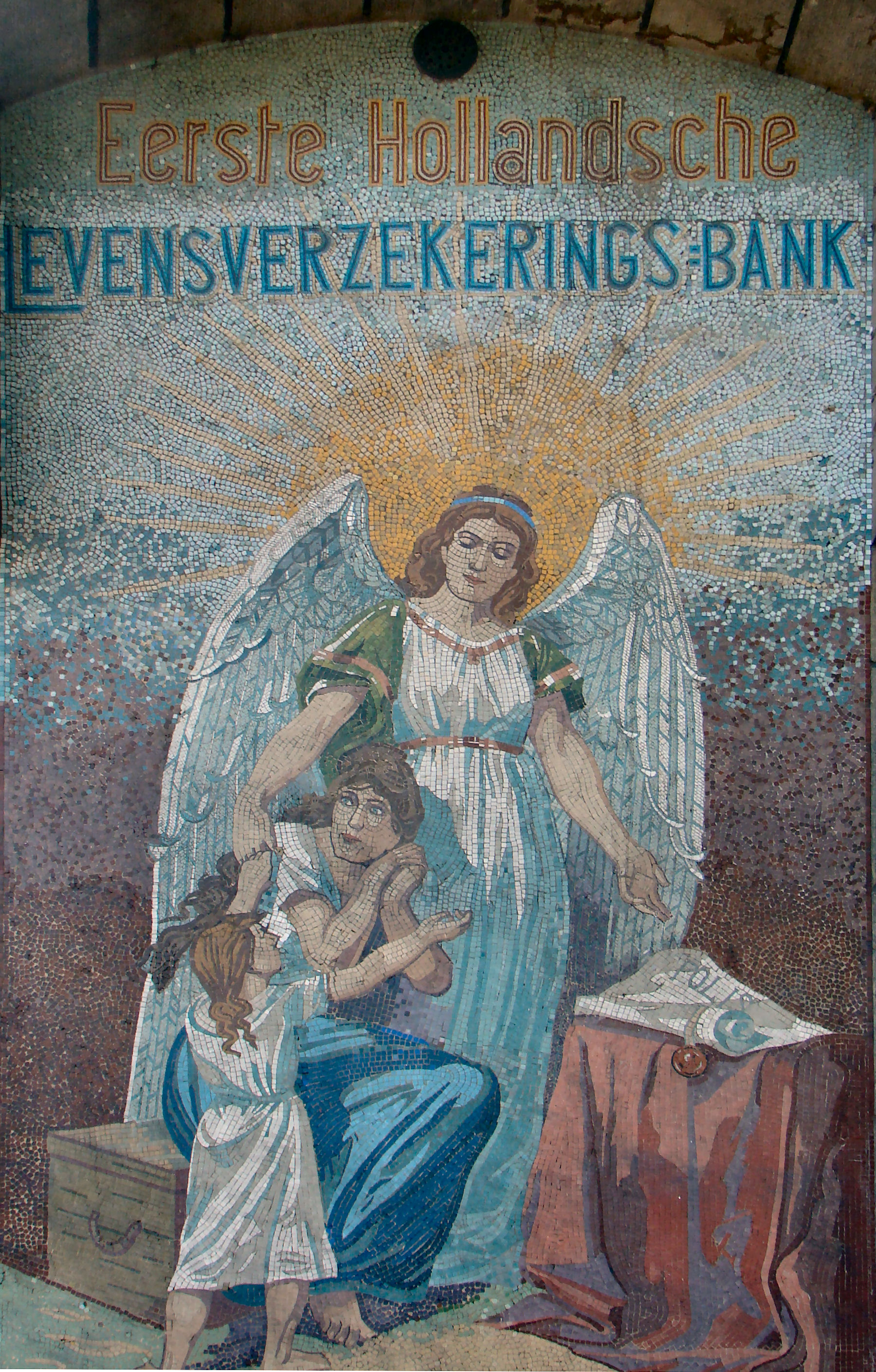 Mozaiek on the Astoria building Amsterdam